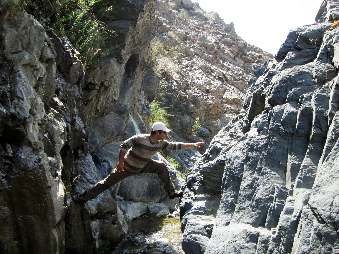 Mir Abad - Nishapur